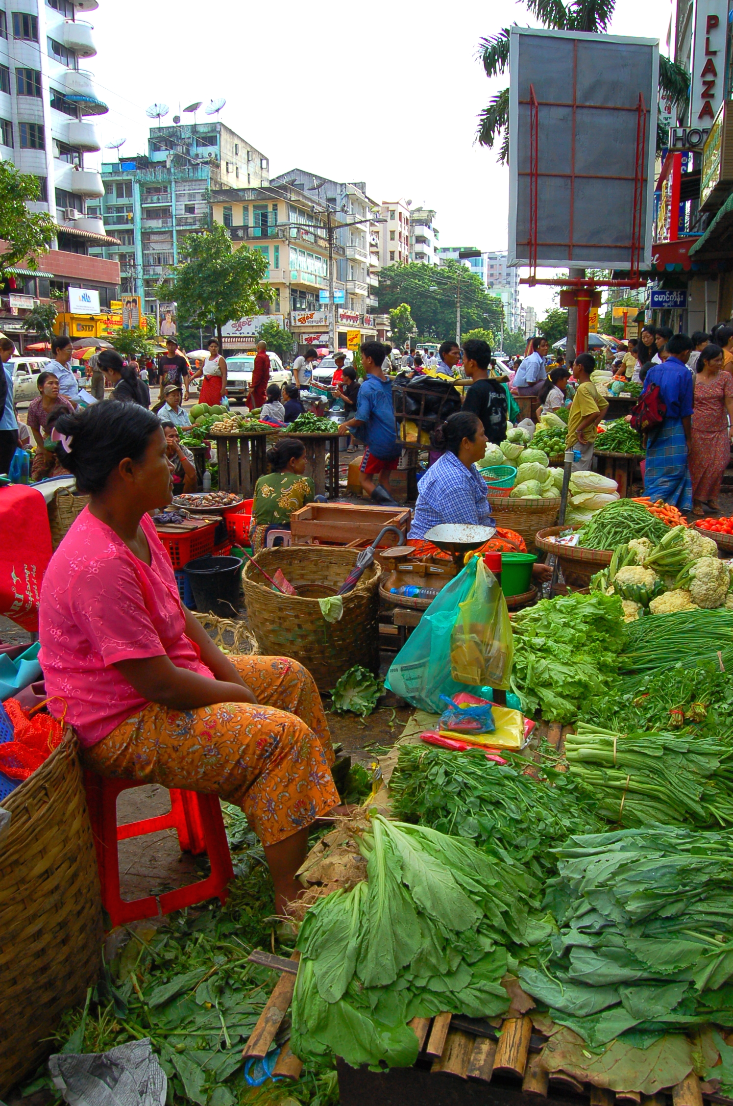 Outdoor market, Yangon, Myanmar